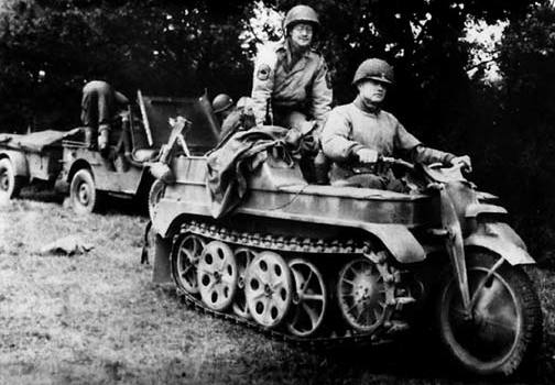 Strom Thurmond